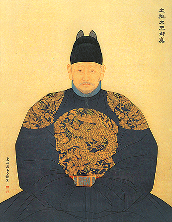 Taejo, the founder and the first king of Joseon Dynasty after Goryeo Dynasty.